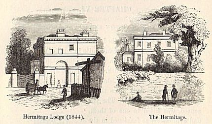 Double 19th-century print of the Hermitage and Lodge 1844